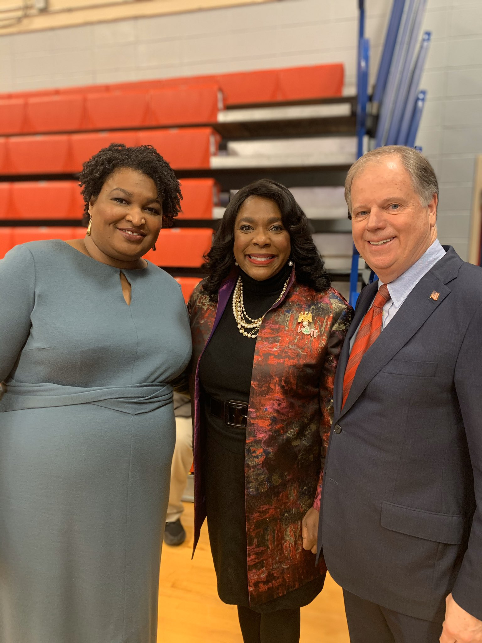 Honored to stand with @staceyabrams and @dougjoneshq at this morning’s Unity Breakfast. During these divisive times, it is crucial that we remember the importance of civility and compassion. Thank you both for working tirelessly to uphold these values.